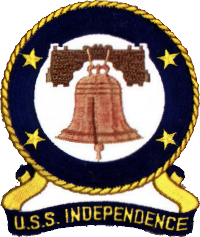 Insignia of the U.S. Navy aircraft carrier USS Independence (CVA-62), in 1961.